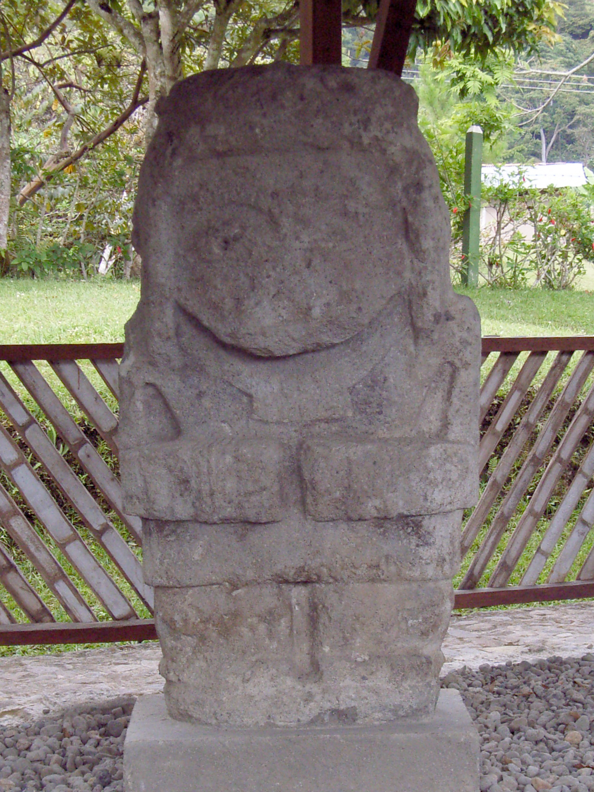 Statues from Tierradentro show features that resemble to those of San Agustín, Huila